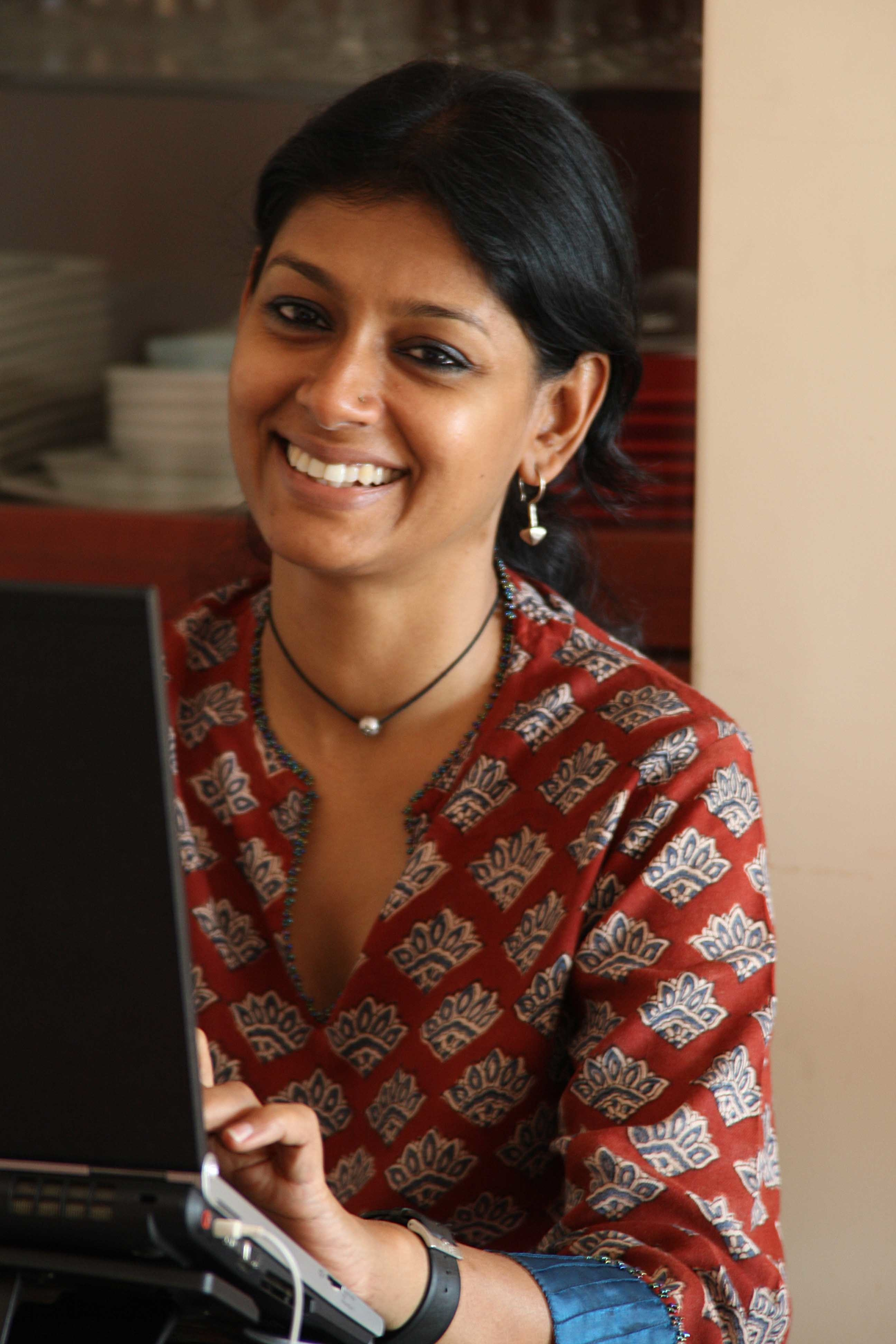 Nandita Das, Hindi film actor.